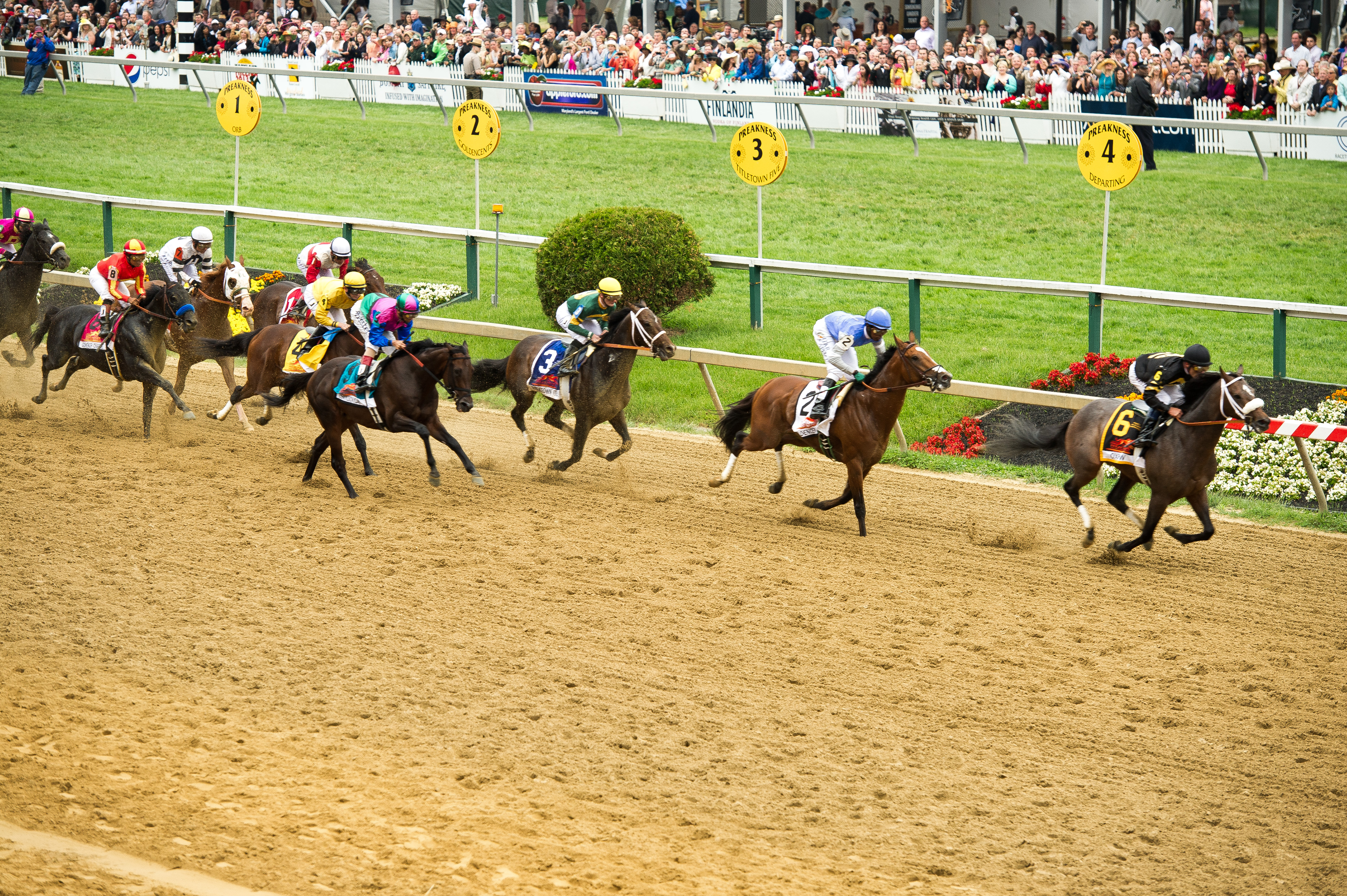 The 138th Annual Preakness photographed by Jay Baker at Baltimore, MD. Winner Oxbow, far right, leads the pack into the straight - the first time past the stands (not the finish)